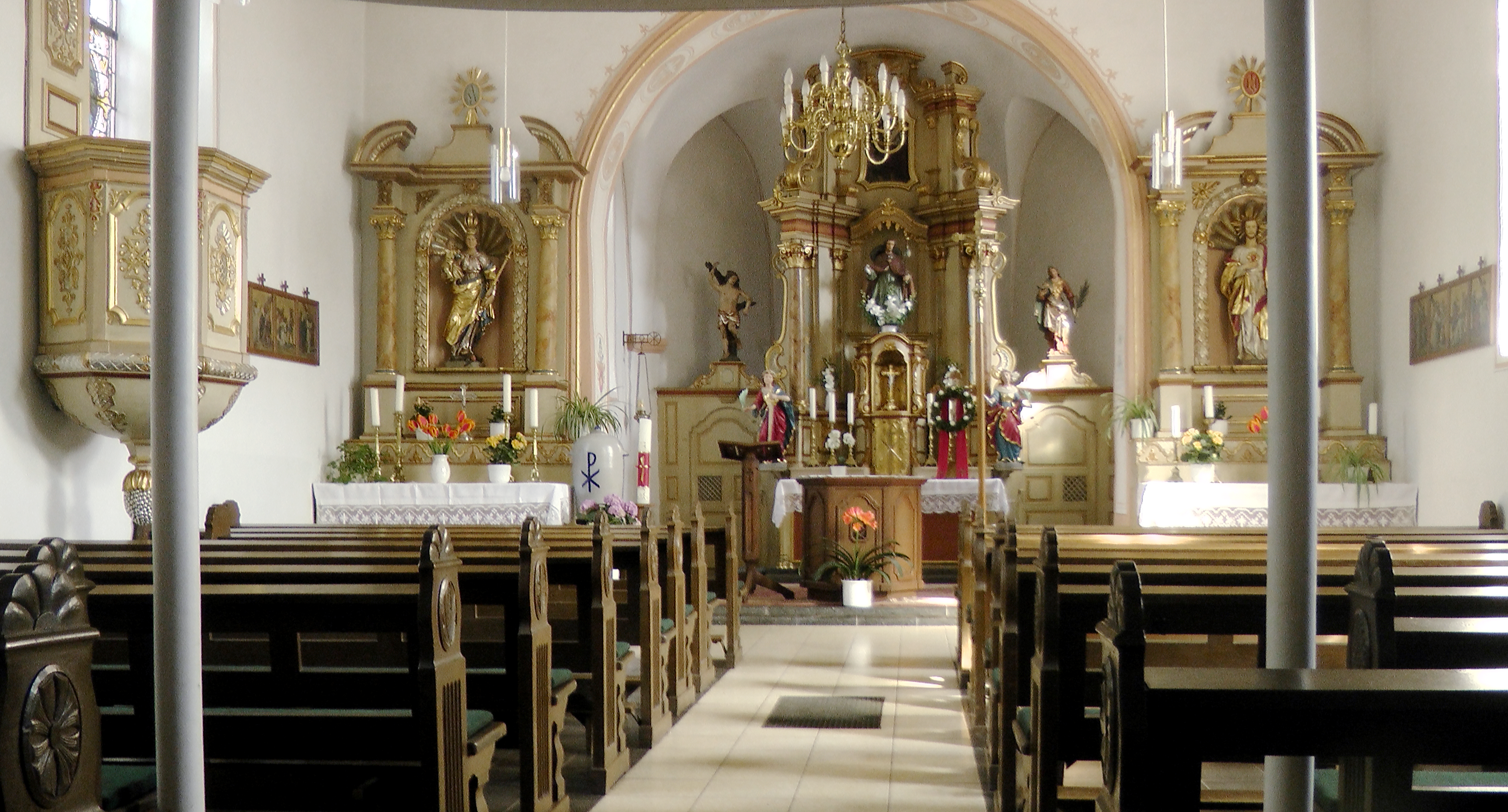 St. James Fisch (Saargau), Germany interior